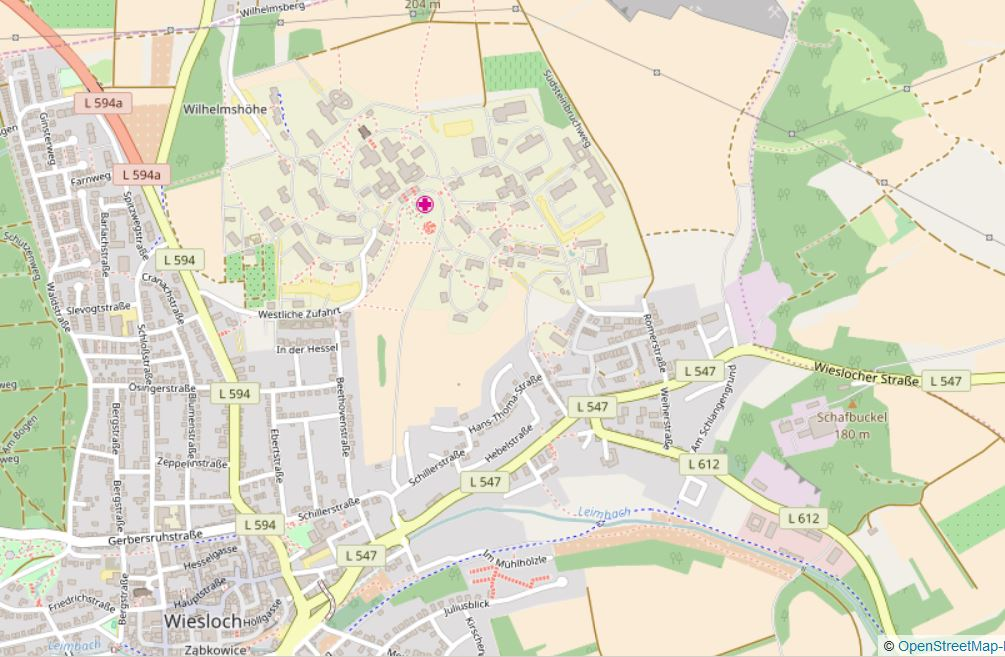 Maps from OpenMap, 2017, Wiesloch and PZN.